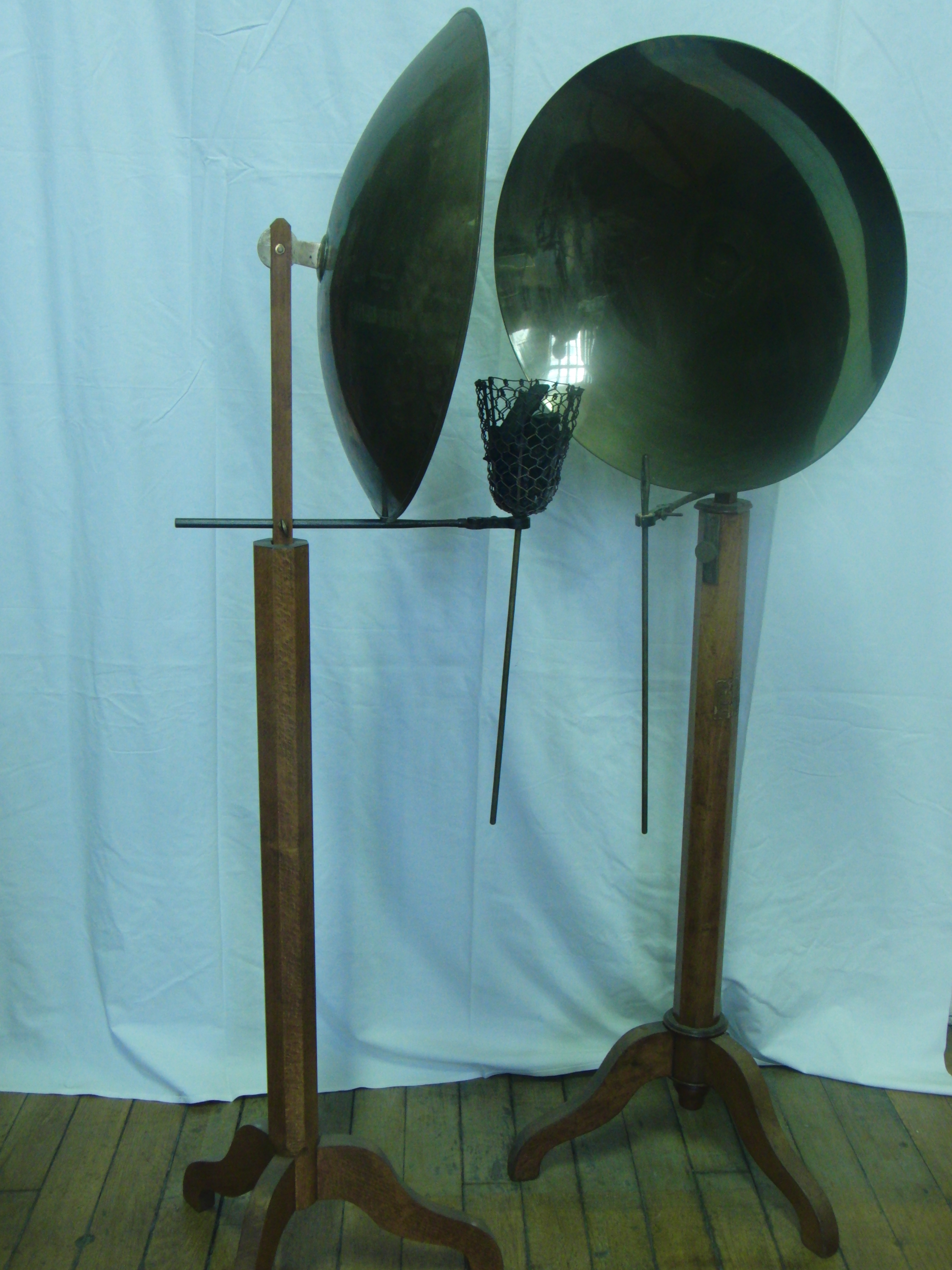 Burning mirrors